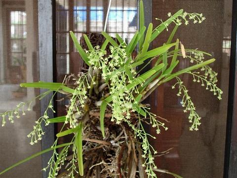 A work released per the GNU Free Documentation License by: Martín Javier Battiti de Tegucigalpa, Honduras